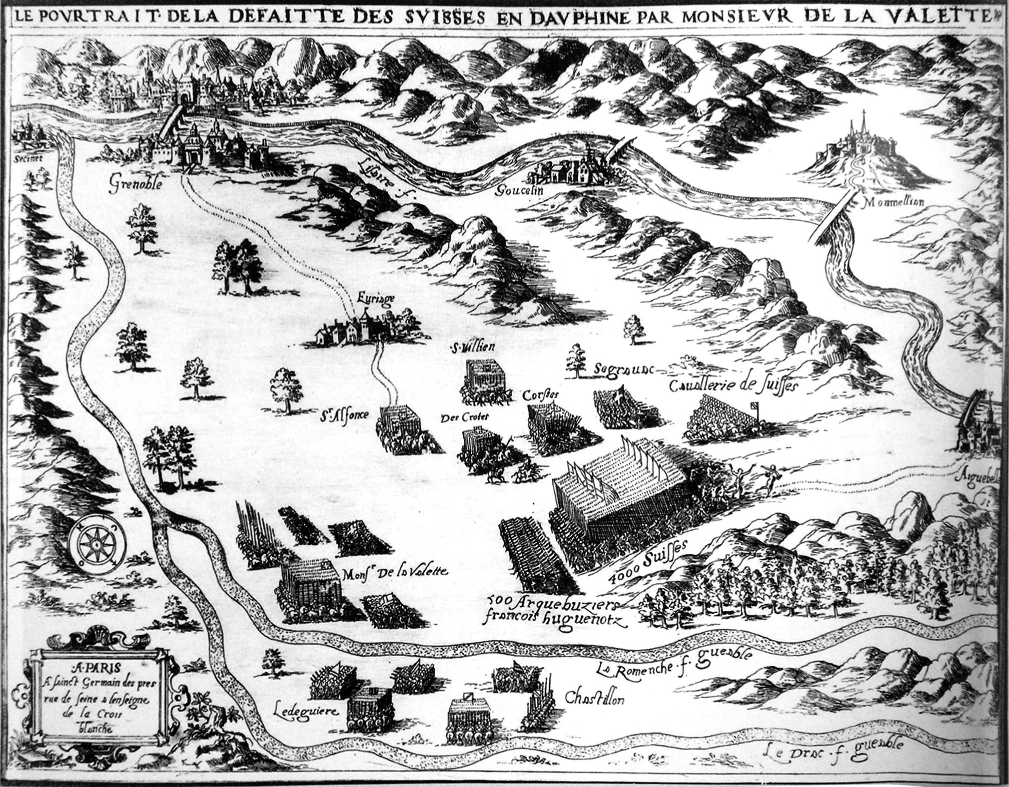 map representing positions during a battle